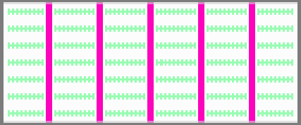 The electric and magnetic fields in a rectangular waveguide with waveguide propagation mode TE10 (Transverse Electric mode 1, 0) SFG-ified by Vanessa Ezekowitz (based on this image)